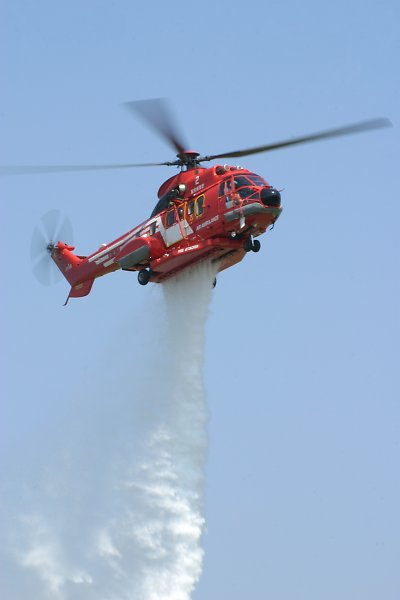 An AS332 firefighting helicopter dropping water